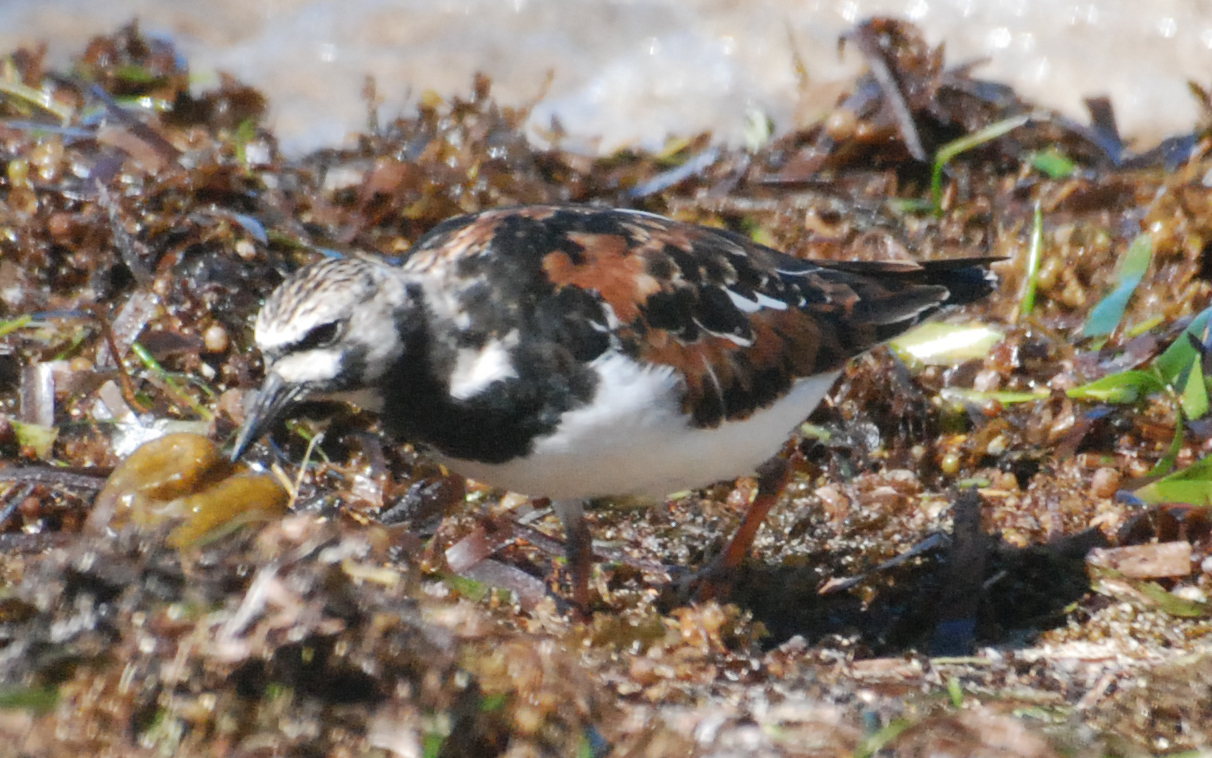 Ruddy Turnstone (Arenaria interpres) in New Caledonia